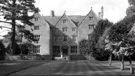 Frontal view of Reed Business School